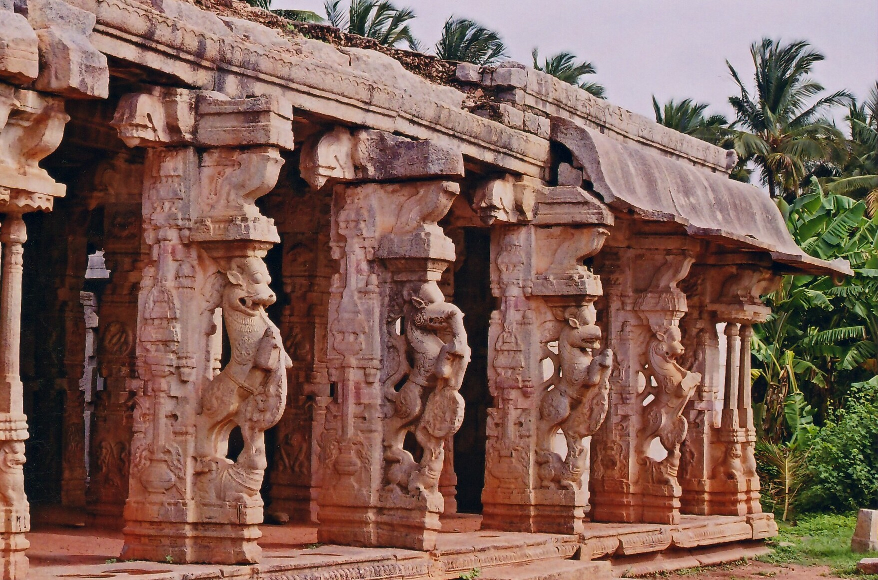 Photograph taken by self (Dinesh Kannambadi) at the Chandikesvara temple in Hampi, Karnataka state, India in June 2004